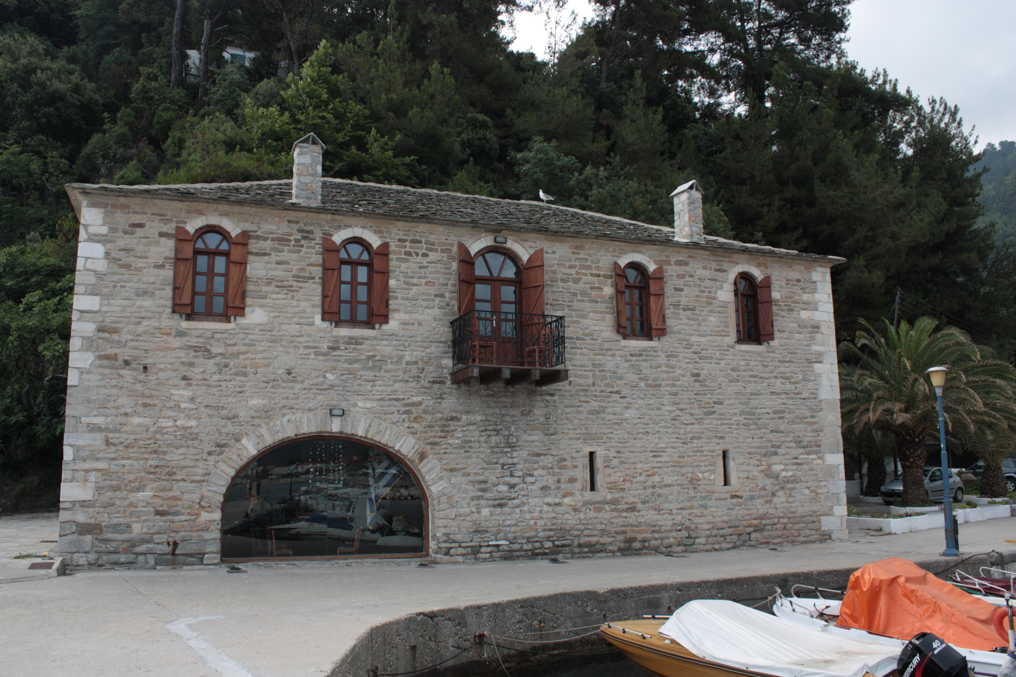 Potamia (Thassos) local museum